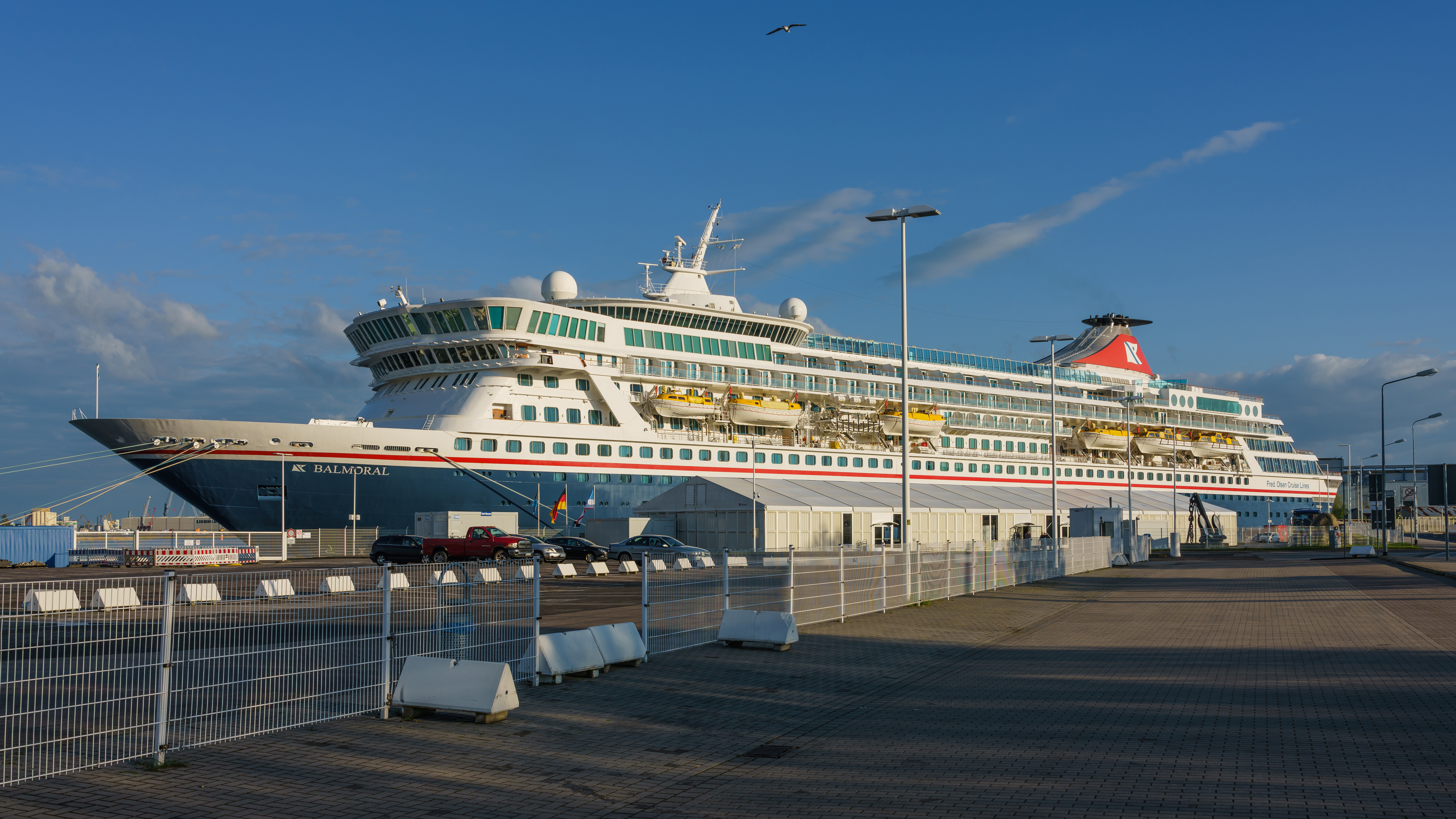 Cruise ship Balmoral in the port of Warnemünde, Rostock, Germany